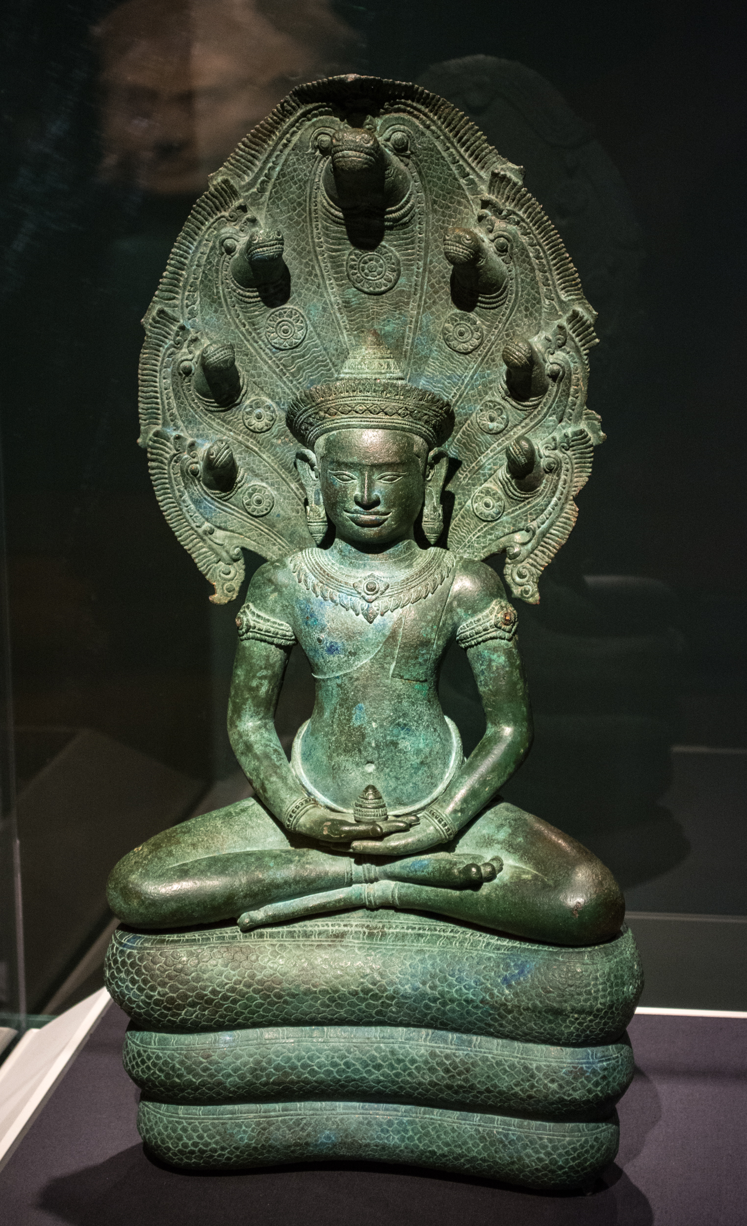 Naga-enthroned Buddha. Bronze, about 1100 AD. Banteay Chhmar, Cambodia The Buddha represents the union of compassion and wisdom. The naga represents the Khmer people of Cambodia. The Buddha enthroned on the naga was often a representation of the king. But this Buddha is crowned and bejeweled. In his hands, he holds a conical mound of rice. This indicates that this is more than a representation of a king; this is a Buddha who will ensure the prosperity of the land.